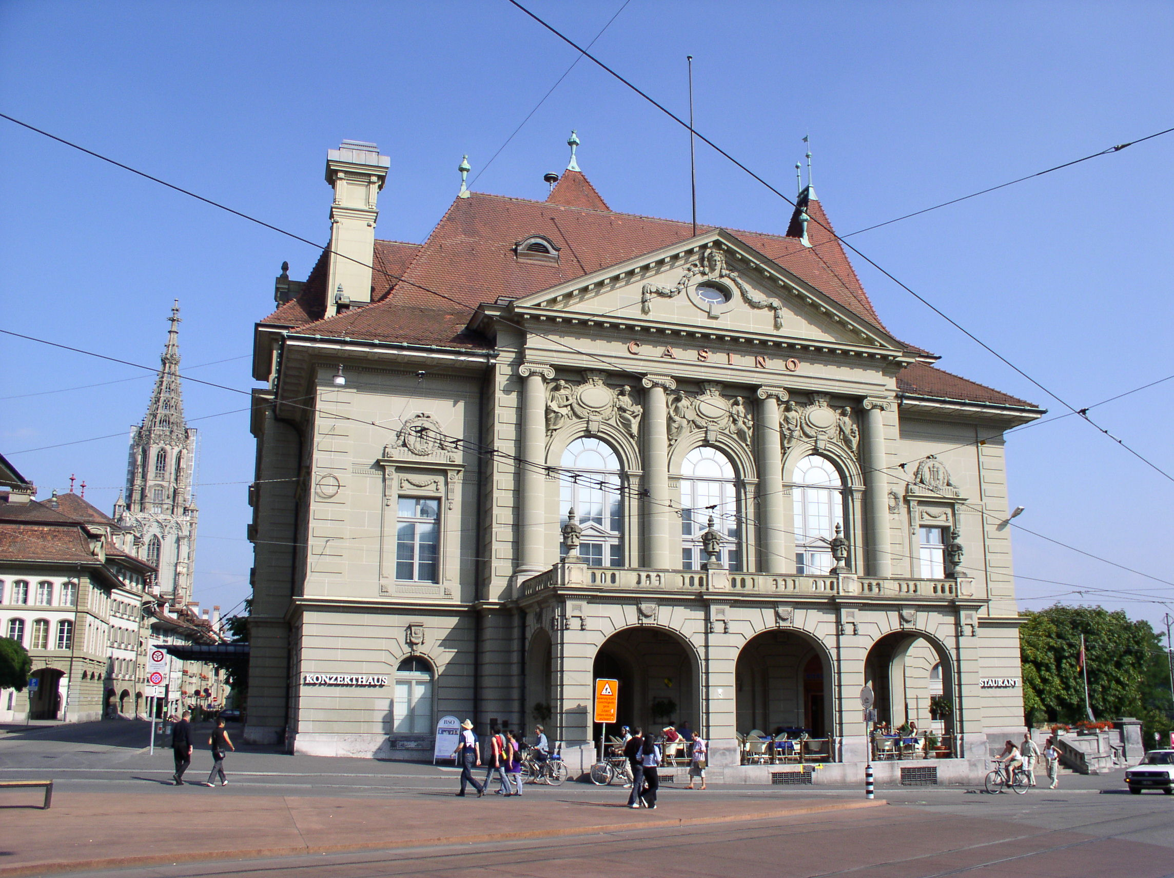 Description: Kultur-Casino an der Herrengasse in Bern Source: photo taken by me, September 2005 Photographer: Baikonur